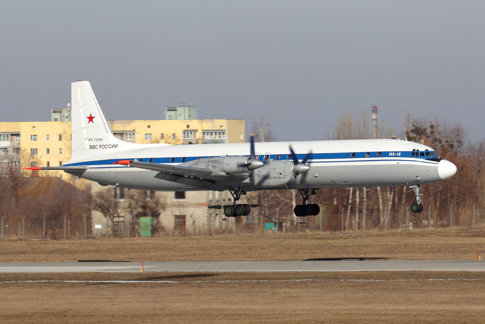 Russian Air Force Ilyushin Il-18D at Kharkiv Airport